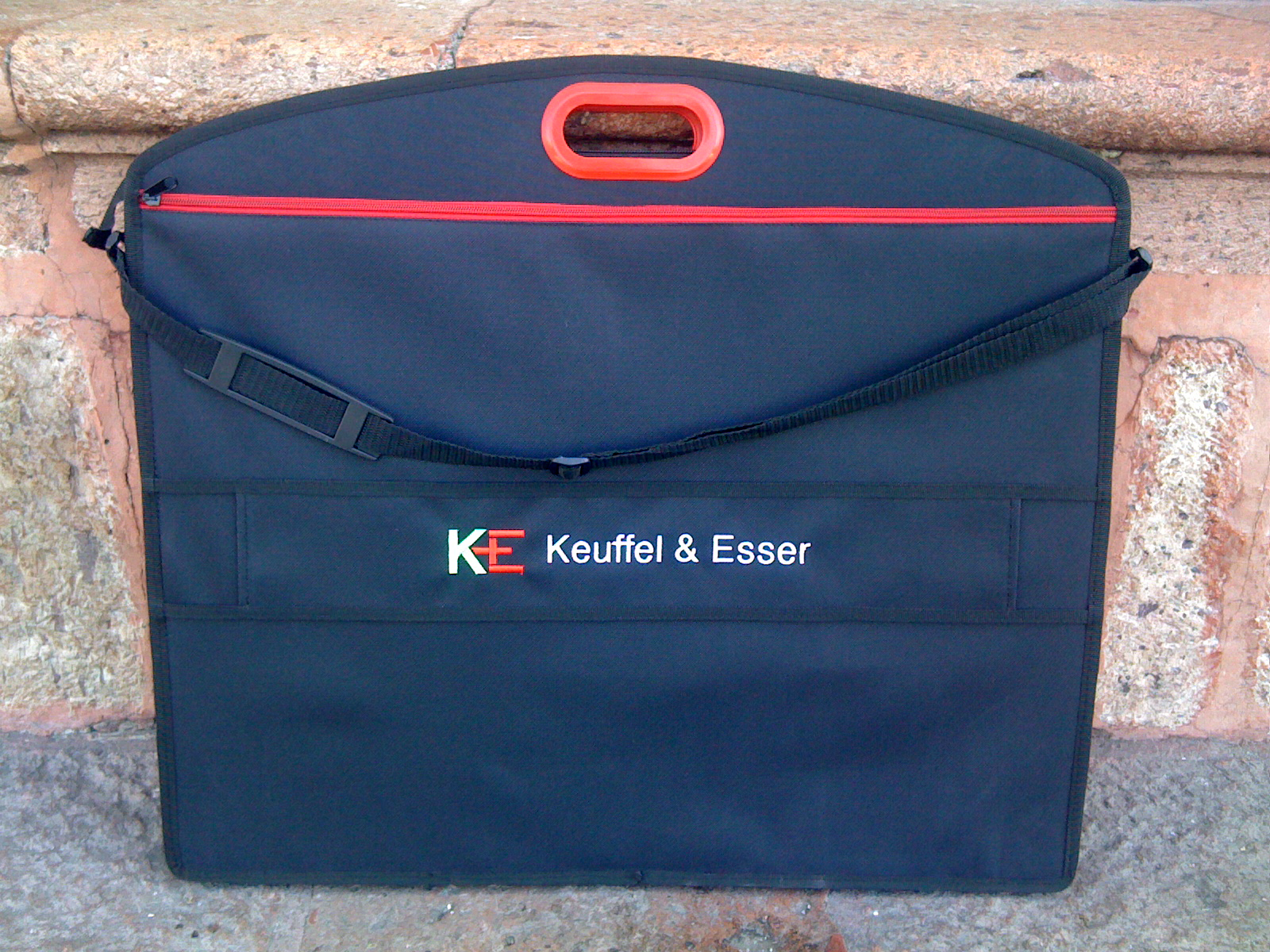 Keuffel and Esser portfolio for drawings produced under license by Lumen stationery company in Mexico, A2 size.